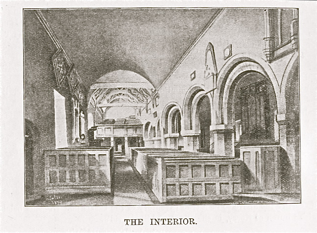 Interior Kerry Church, Montgomeryshire